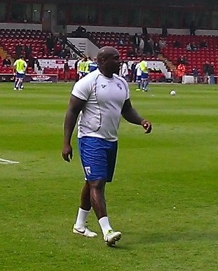 Adebayo Akinfenwa warms up before the Walsall F.C. vs Gillingham F.C. game today. I took the image myself. Summary Adebayo Akinfenwa warms up before the Walsall F.C. vs Gillingham F.C. game today. I took the image myself.